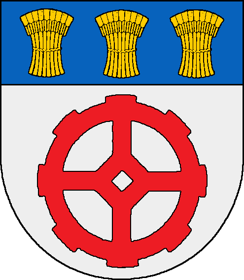 Coat of arms of the municipality Postfeld in Schleswig-Holstein, Germany.